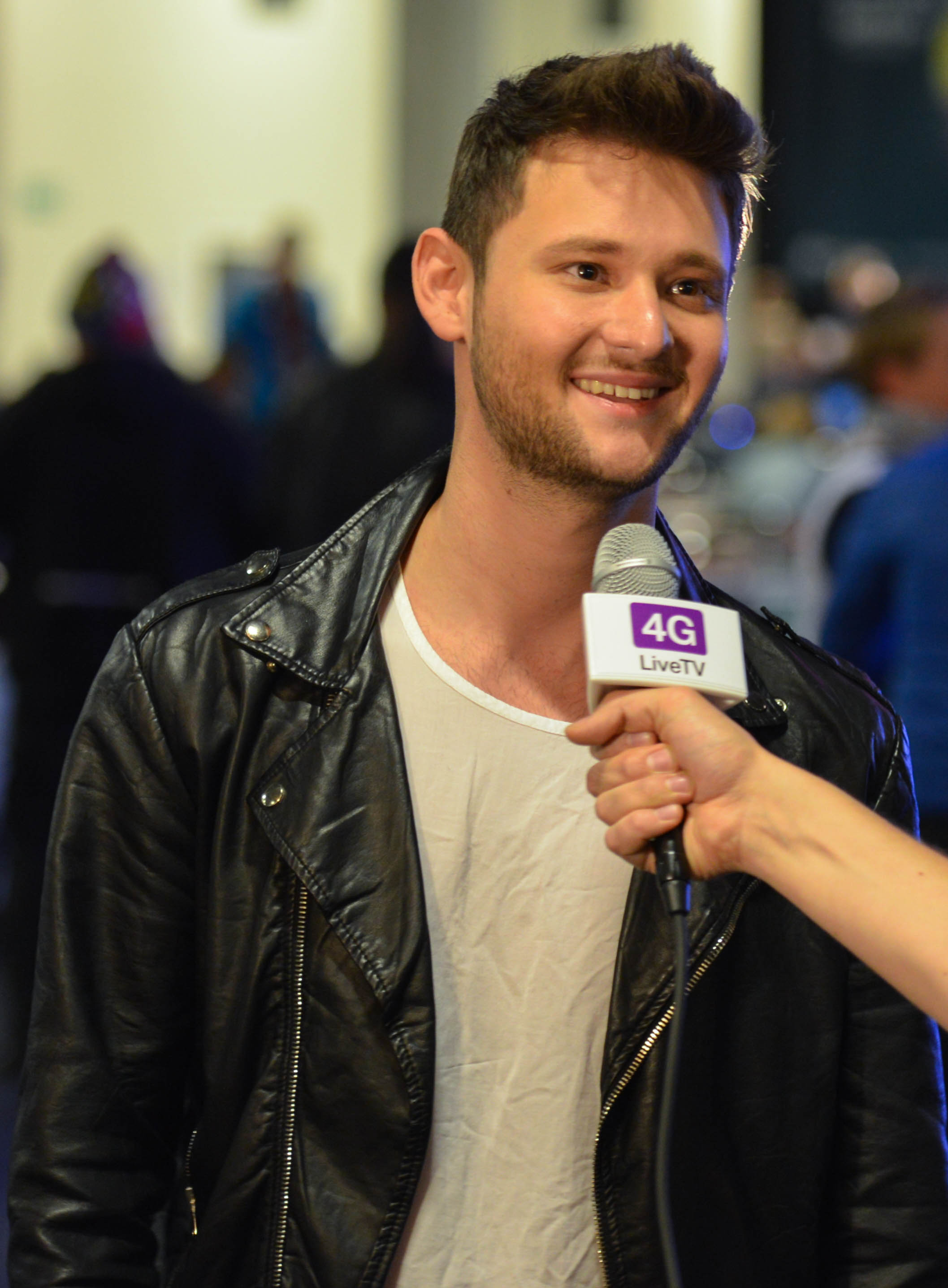 Eldar Gasimov, host for the Eurovision Song Contest 2012, visiting Malmö for the Eurovision Song Contest 2013.